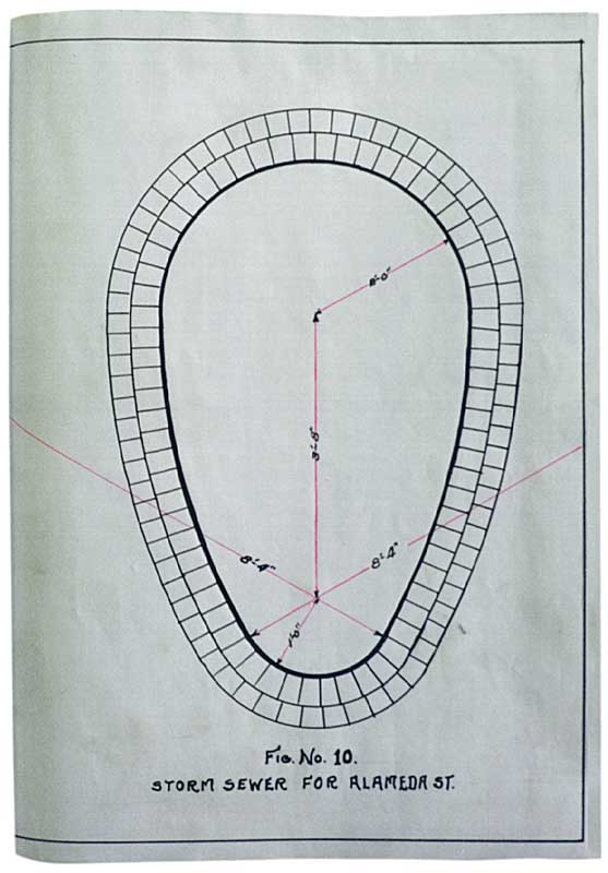 Construction sketch of the London Sewerage System